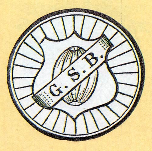 Logo of portuguese football club Grupo Sport Benfica founded in 26/07/1906, before union with Sport Lisboa e Benfica, in 1908.